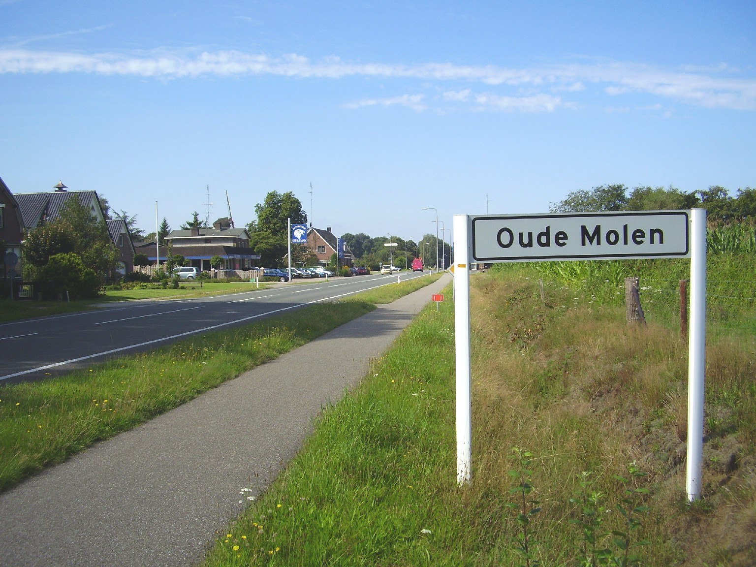 The hamlet of Oude Molen in Deventer municipality, the Netherlands